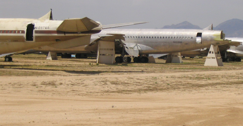 Planes at AMARC that are being used for parts.